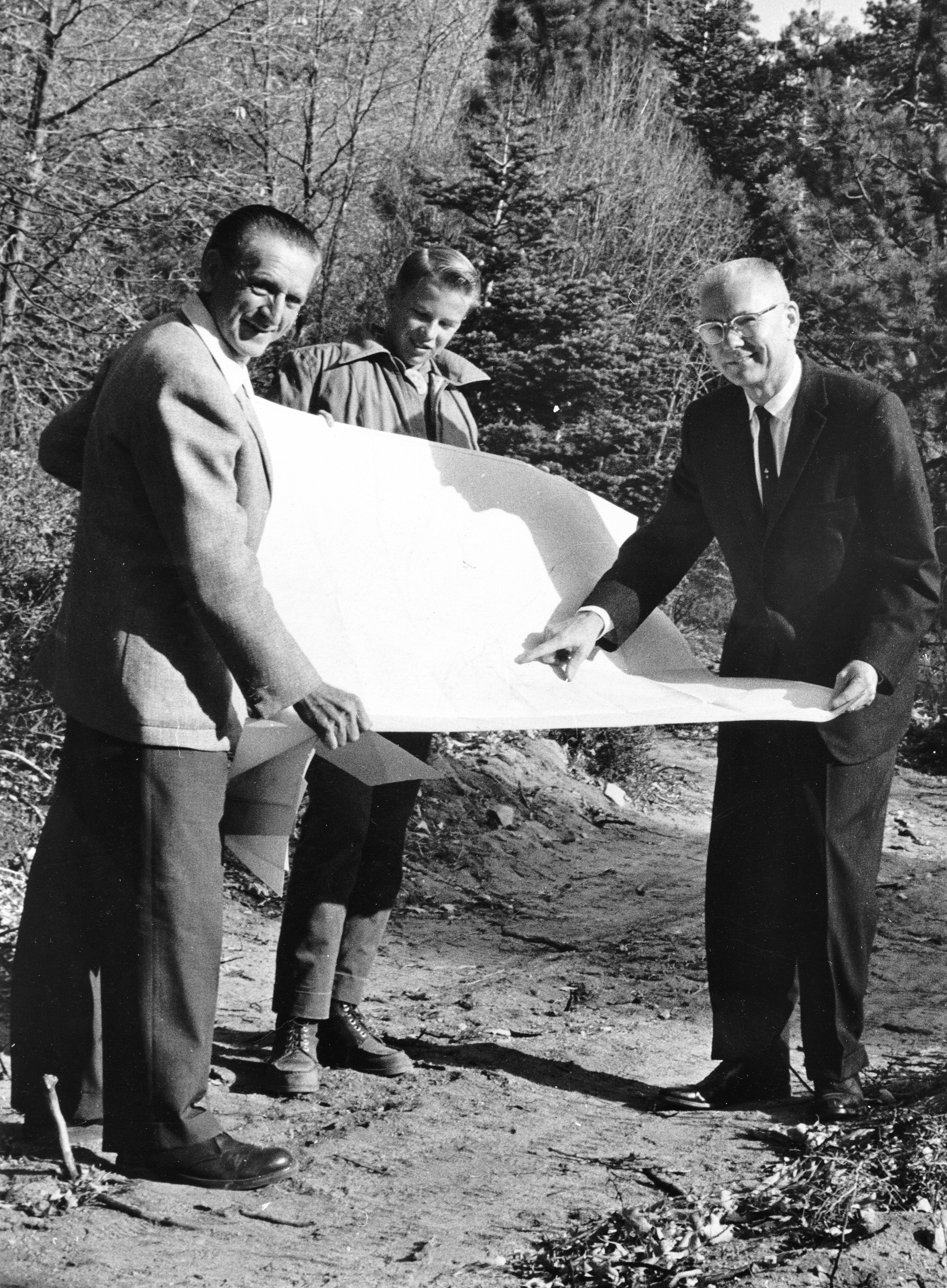 Orange County industrialist and philanthopist Adolf Schoepe with Boy Scout Mike White of Anaheim District Troop 70 and Robert Daily, General Manager of Delco-Remy, go over plans for the development of new water sources at Camp Ahwahnee.